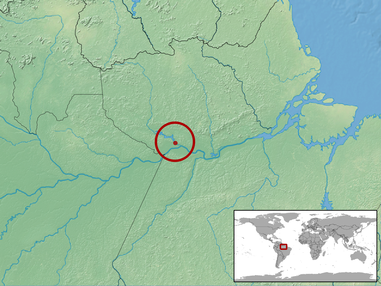 geographic distribution of Amphisbaena tragorrhectes (Native: Brazil)